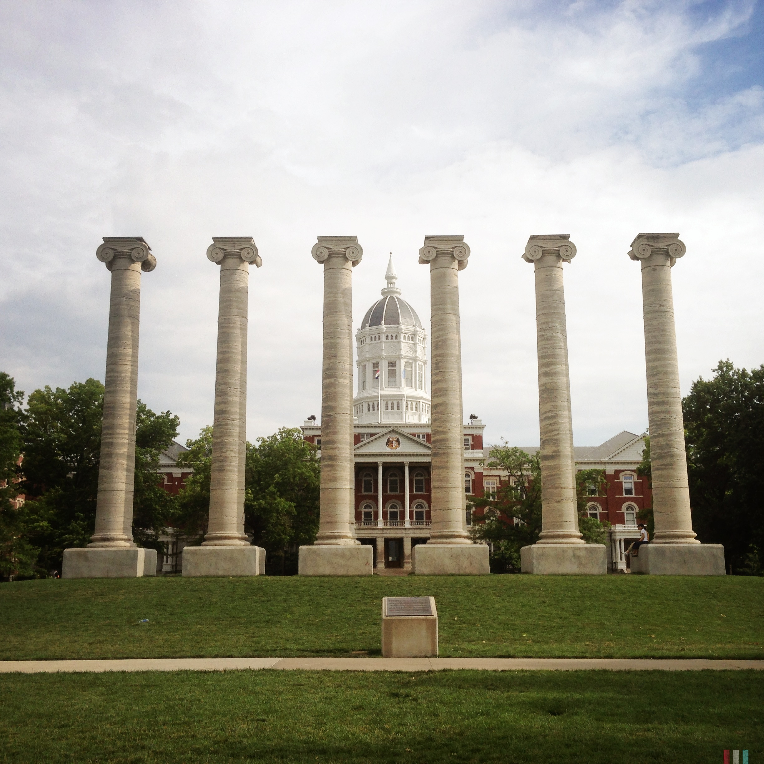 University Missouri